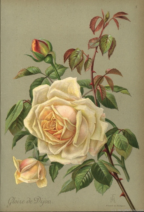 Rosa 'Gloire de Dijon'